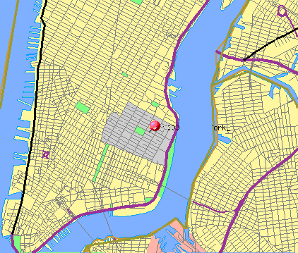 Lower Manhattan, with the East Village darkened violet to show location.